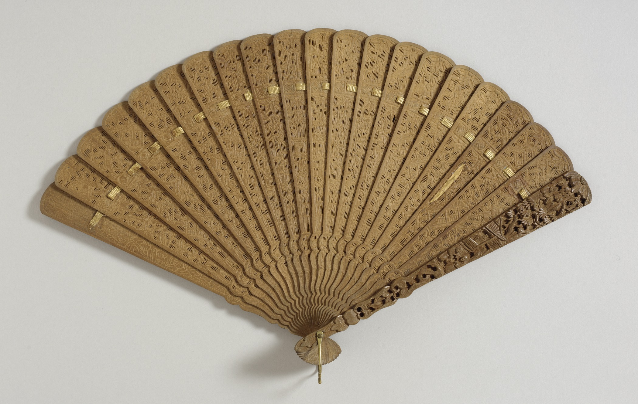 China, 1870 Costumes; Accessories Sandalwood sticks, silk ribbon, brass metallic loop and rivet Gift of Miss Julia Off (33.32) Costume and Textiles